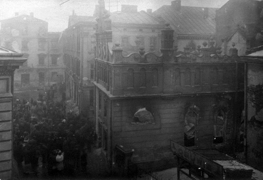 The synagogue Chassidim Shul in Lwow after pogrom in november 1918.